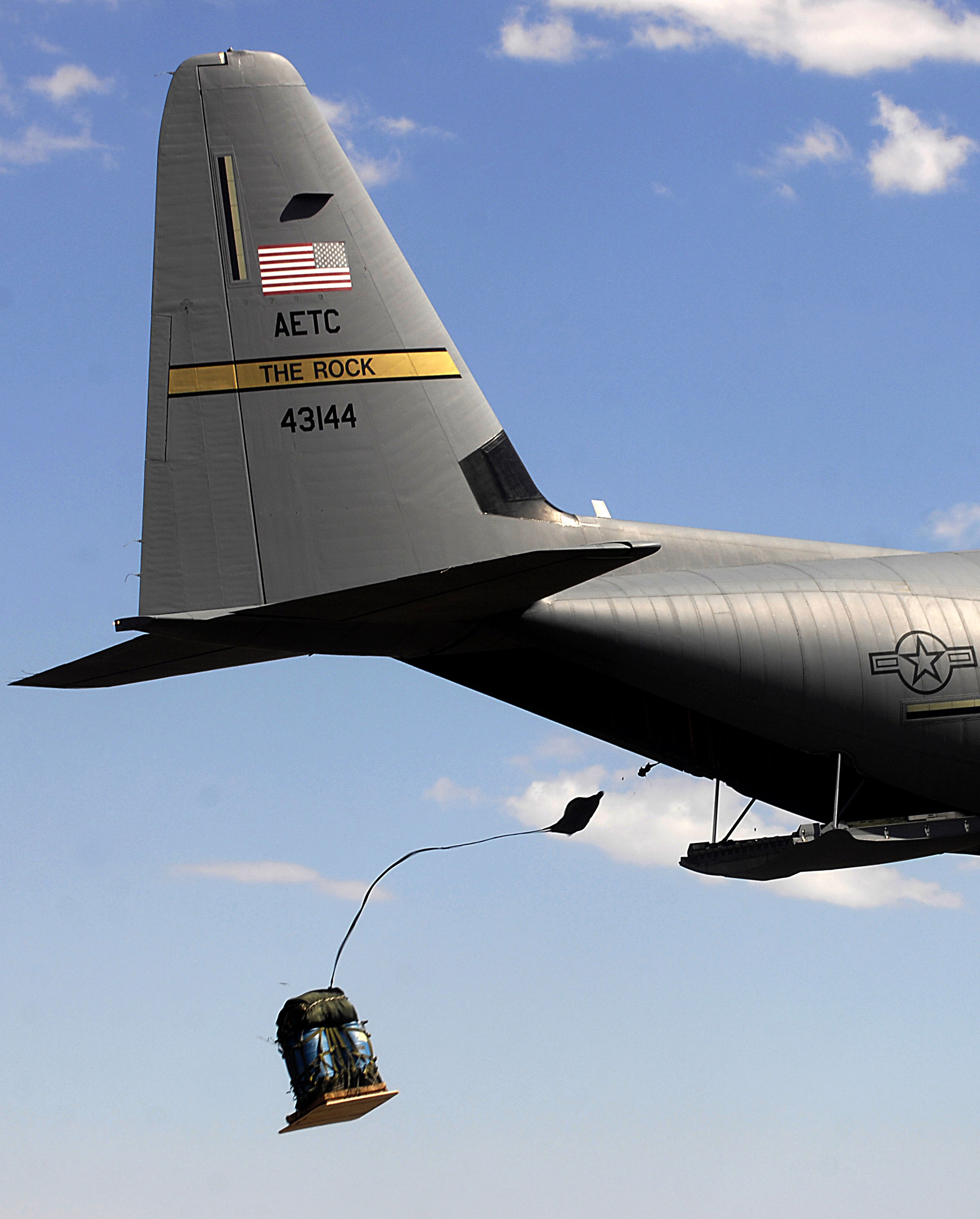 A C-130J Hercules from the 314th Airlift Wing at Little Rock Air Force Base, Ark., competes in the air drop competition for Air Mobility Rodeo 2007 by dropping pallets on targets July 23. Rodeo is a readiness competition for U.S. and international mobility air forces. (U.S. Air Force photo/Staff Sgt. Richard Rose)